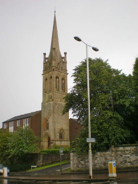 Tower and spire of a demolished Methodist church, Manchester Road, Burnley, Lancashire